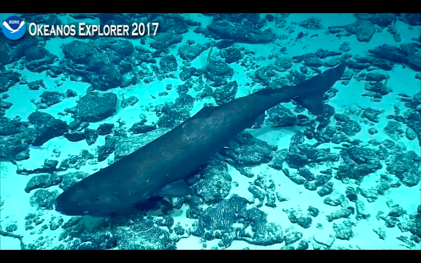 Pacific sleeper shark spotted during NOAA's 2017 CAPSTONE expedition